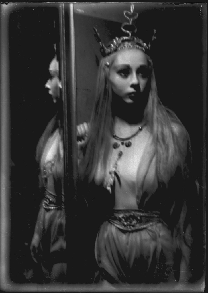 Condition: Good.; Title from reference sources, see file 203/09/00017-02.; Part of collection: The Geoffrey Ingram collection of ballet photographs from the Ballets Russes Australian tour, 1936-1940. Persistent URL .au/nla.pic-an24145371